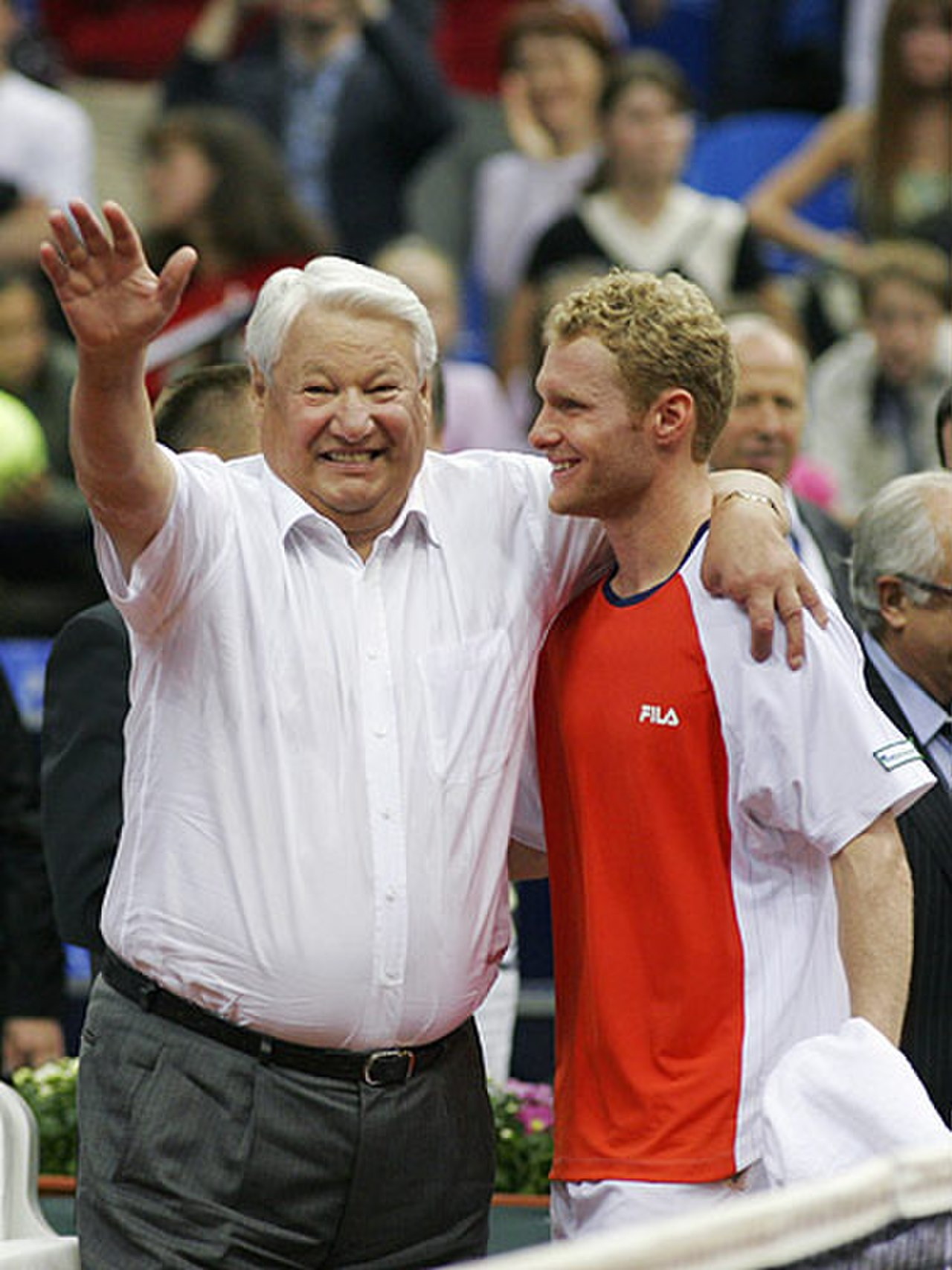 OLYMPIC SPORTS COMPLEX, MOSCOW. At the semi-finals of the Davis Cup Tennis Championships with tennis player Dmitrii Tursunov after the match which the Russian won against the American Andy Roddick.